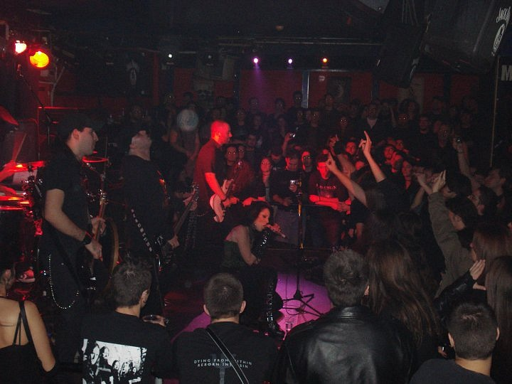 Elysion, 9.1.2010